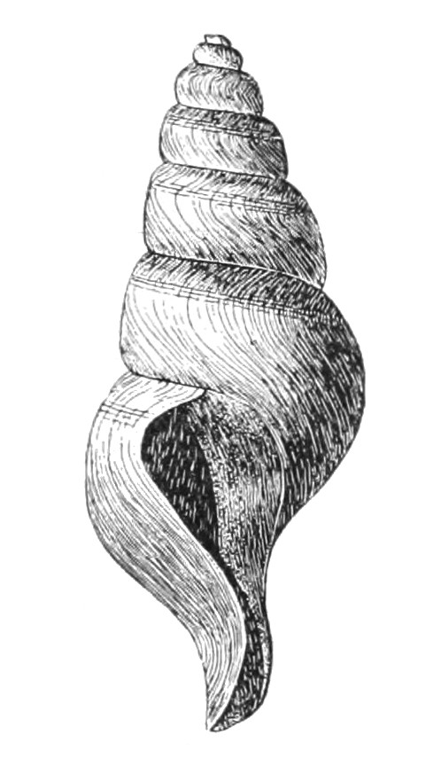 Antiplanes vinosa (Dall, 1874); family Pleusomelatomidae